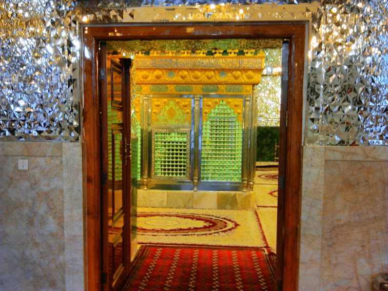 The tomb of Imam Sultan Mohammed Abed in Kakhk